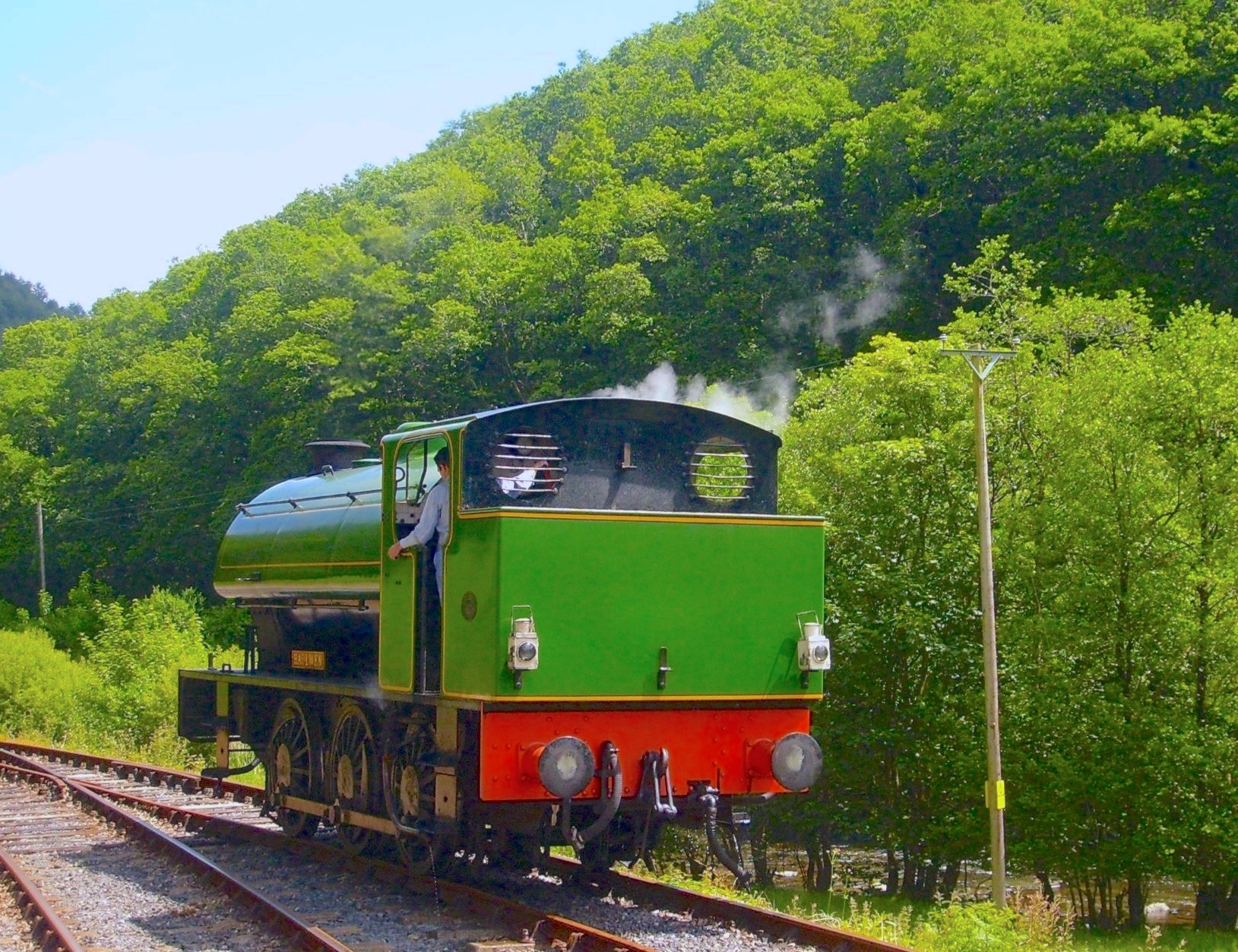 Vulcan Foundry Austerity 0-6-0ST 'Haulwen' runs round the train at Danycoed Railway Station